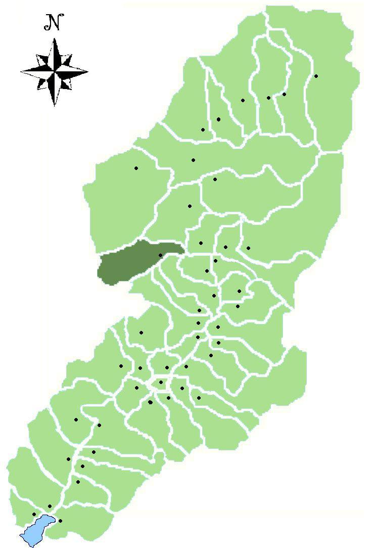 Map of the Comune di Paisco Loveno, Valle Camonica